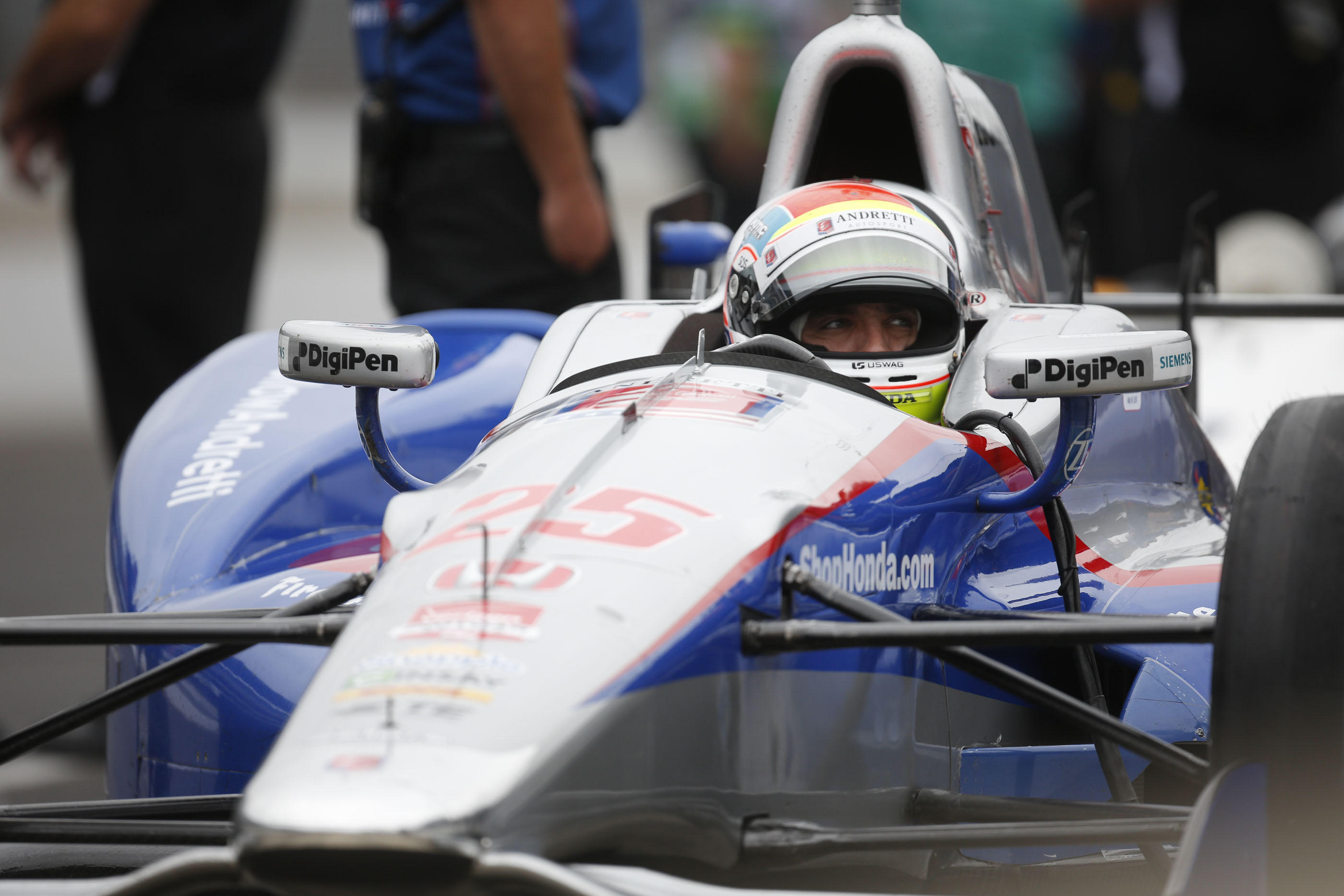 Justin Wilson inside his Andretti Autosport Dallara DW12 IndyCar during the first round of qualifying.